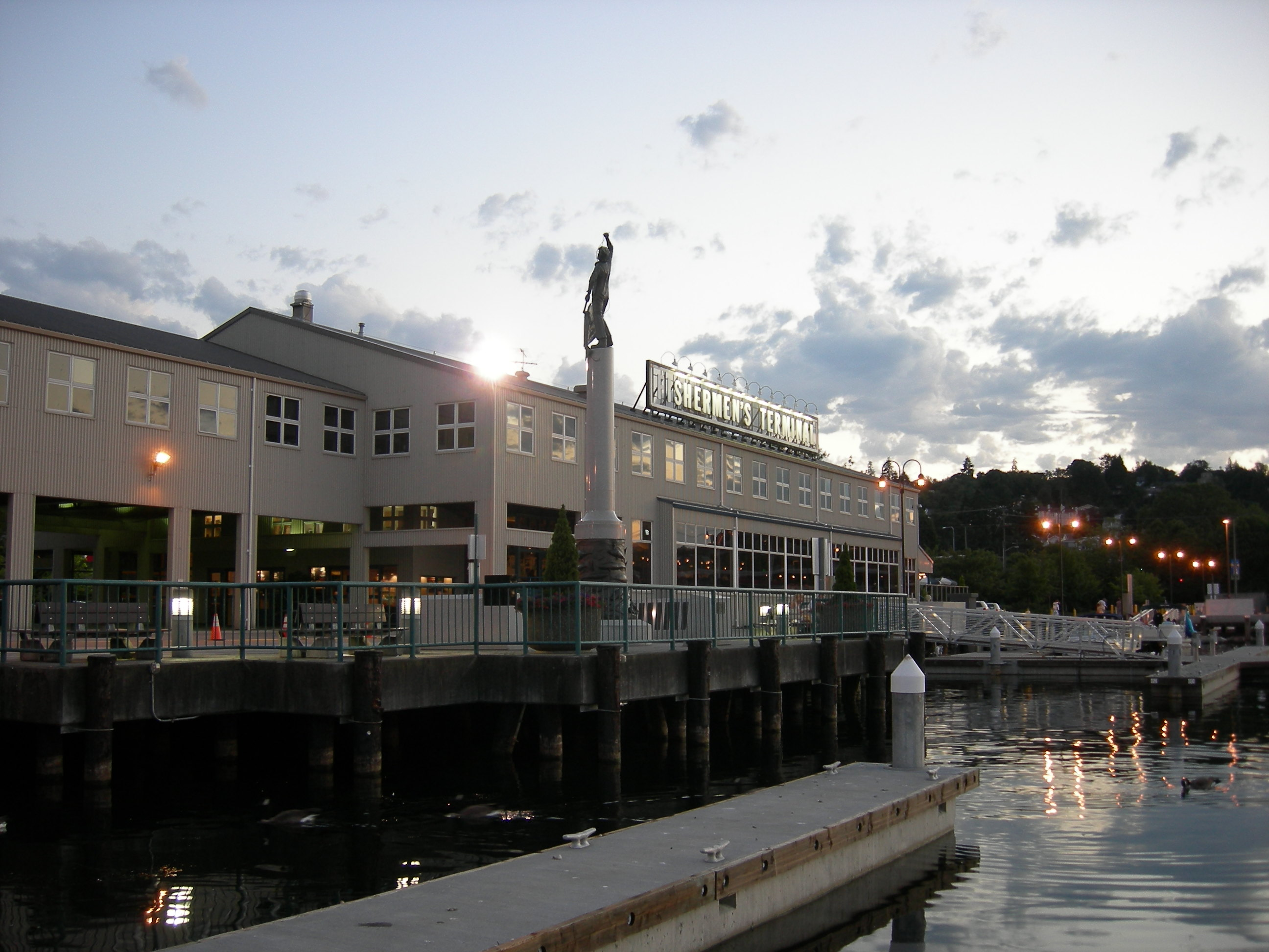 Fishermen's Terminal, Seattle, Washington at sunset. The top of the Fishermen's Memorial can be seen against the sky.